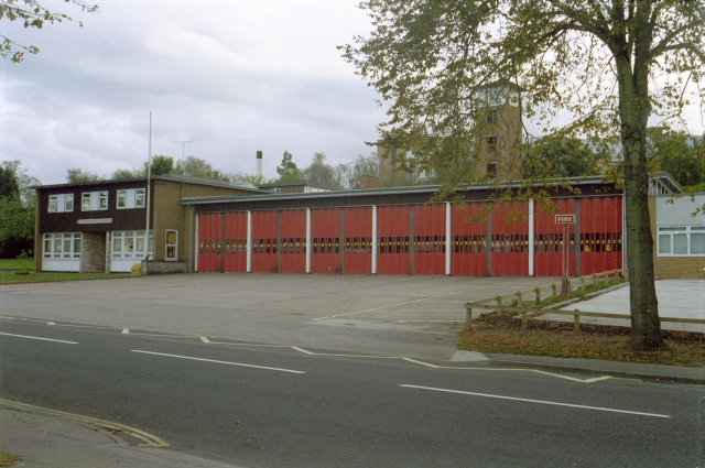 Torquay Fire Station, Newton Road, Torquay, Devon, which also houses the divisional headquarters for the South Division of Devon Fire & Rescue Service, and the divisional workshops.